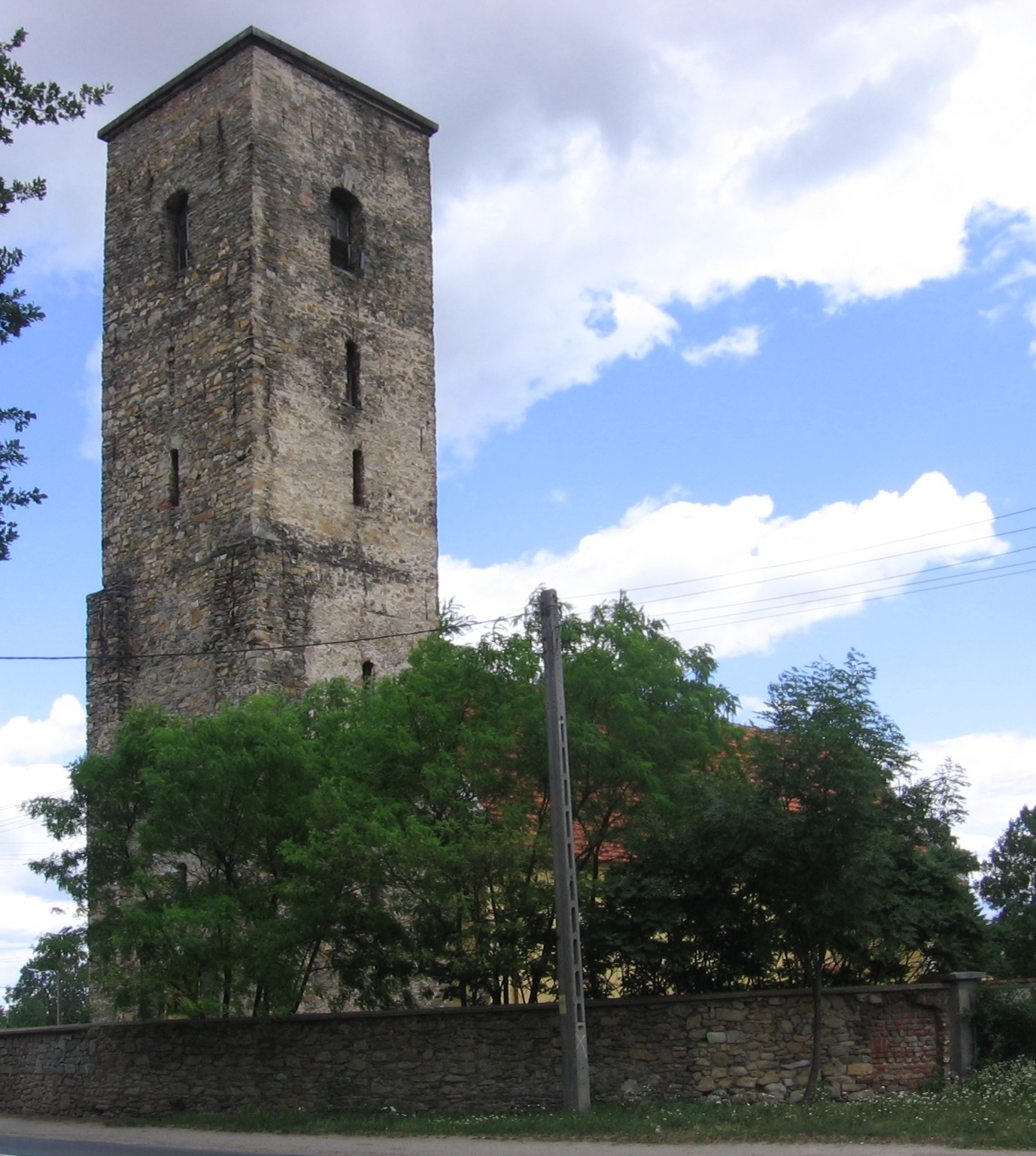 St. John's the Baptist church (built before 1307, rebuilt 15th century, next after fire in 1647 and again after II World War) in Rogów Sobócki near Sobótka and Wrocław, Poland